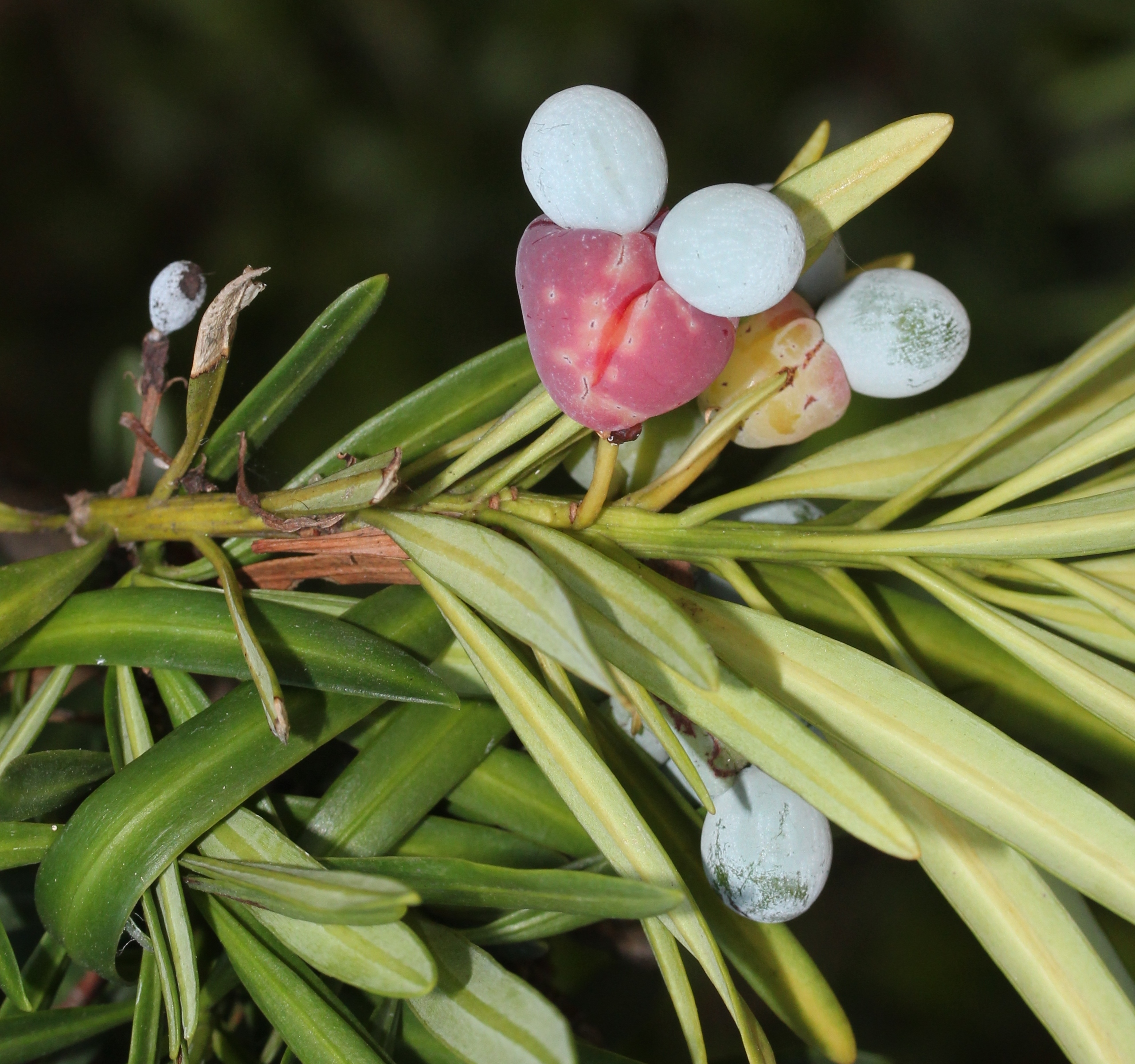 Podocarpus macrophyllus var. maki, cultivated, in Japan.